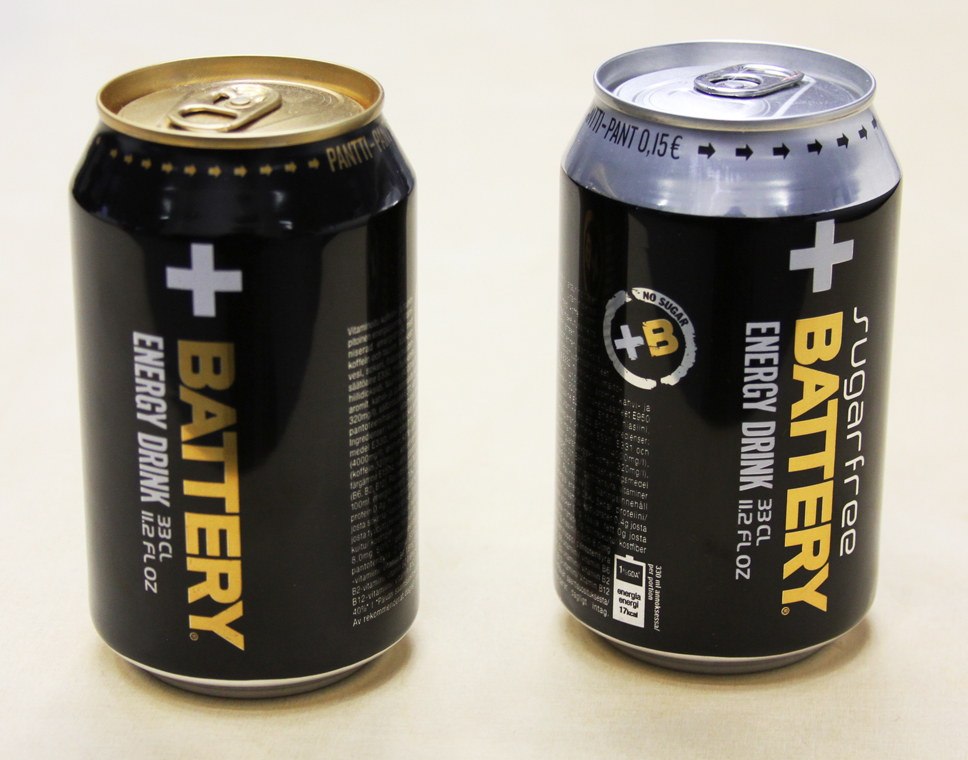 Cans of energy drinks